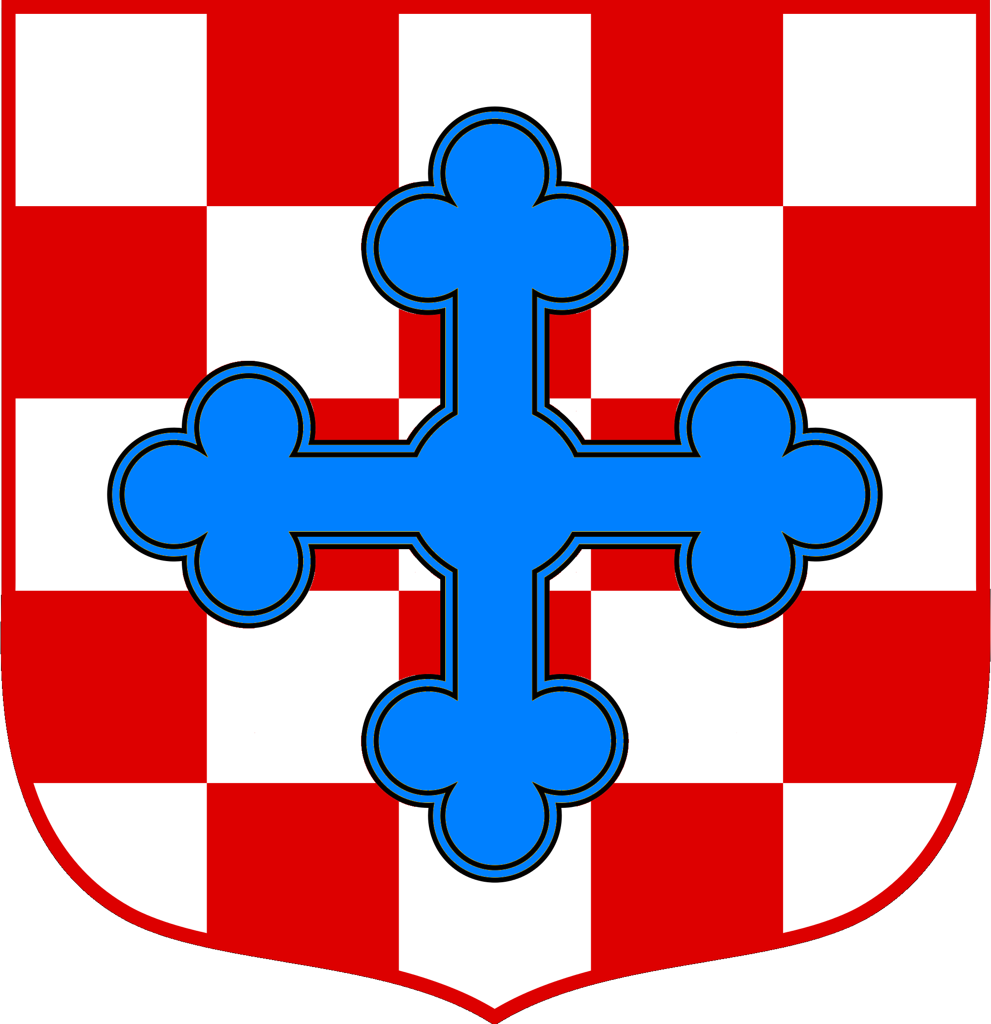 Coat of Arms of the Croatian Orthodox Church